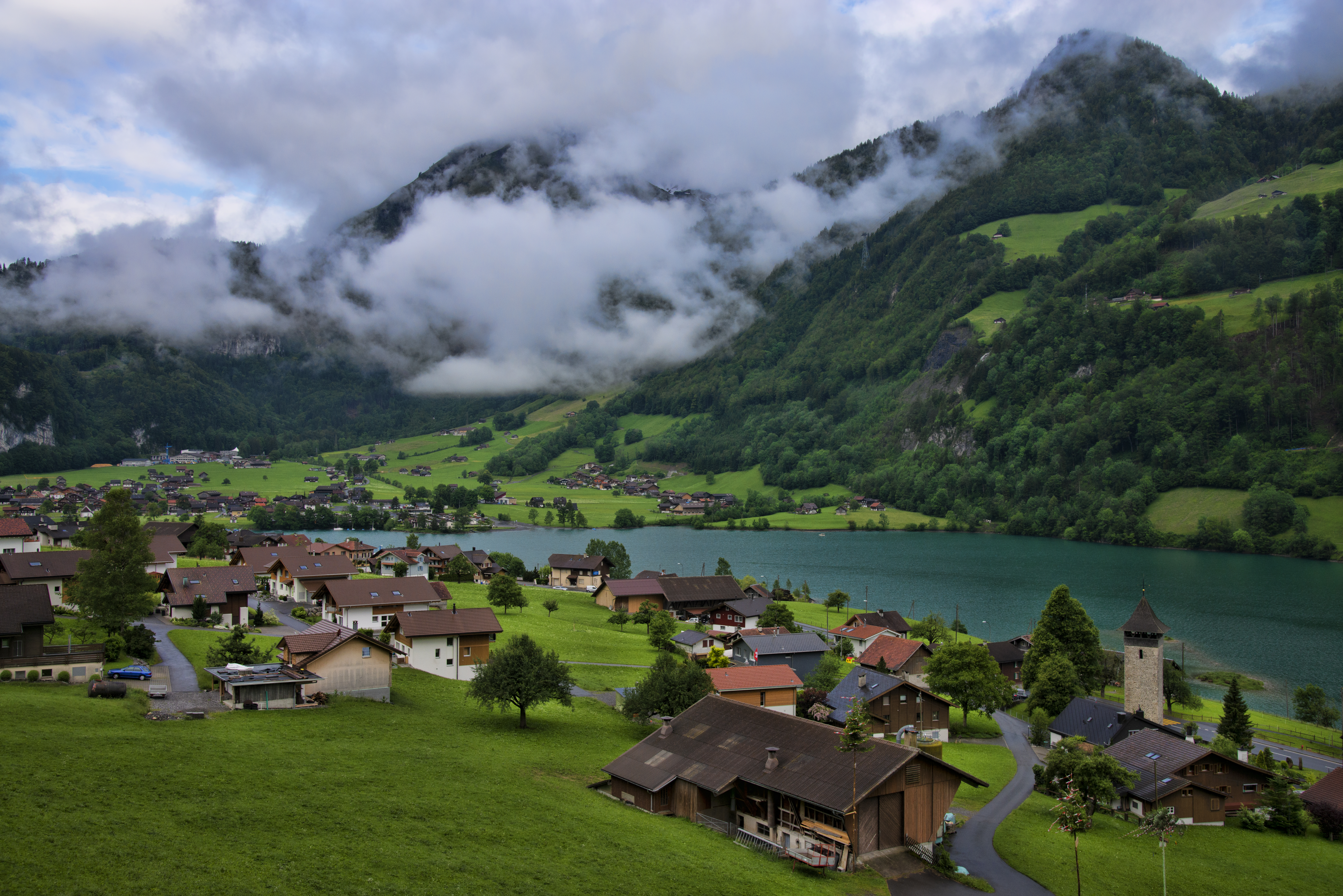 lungern switzerland 2012 glacial express golden pass